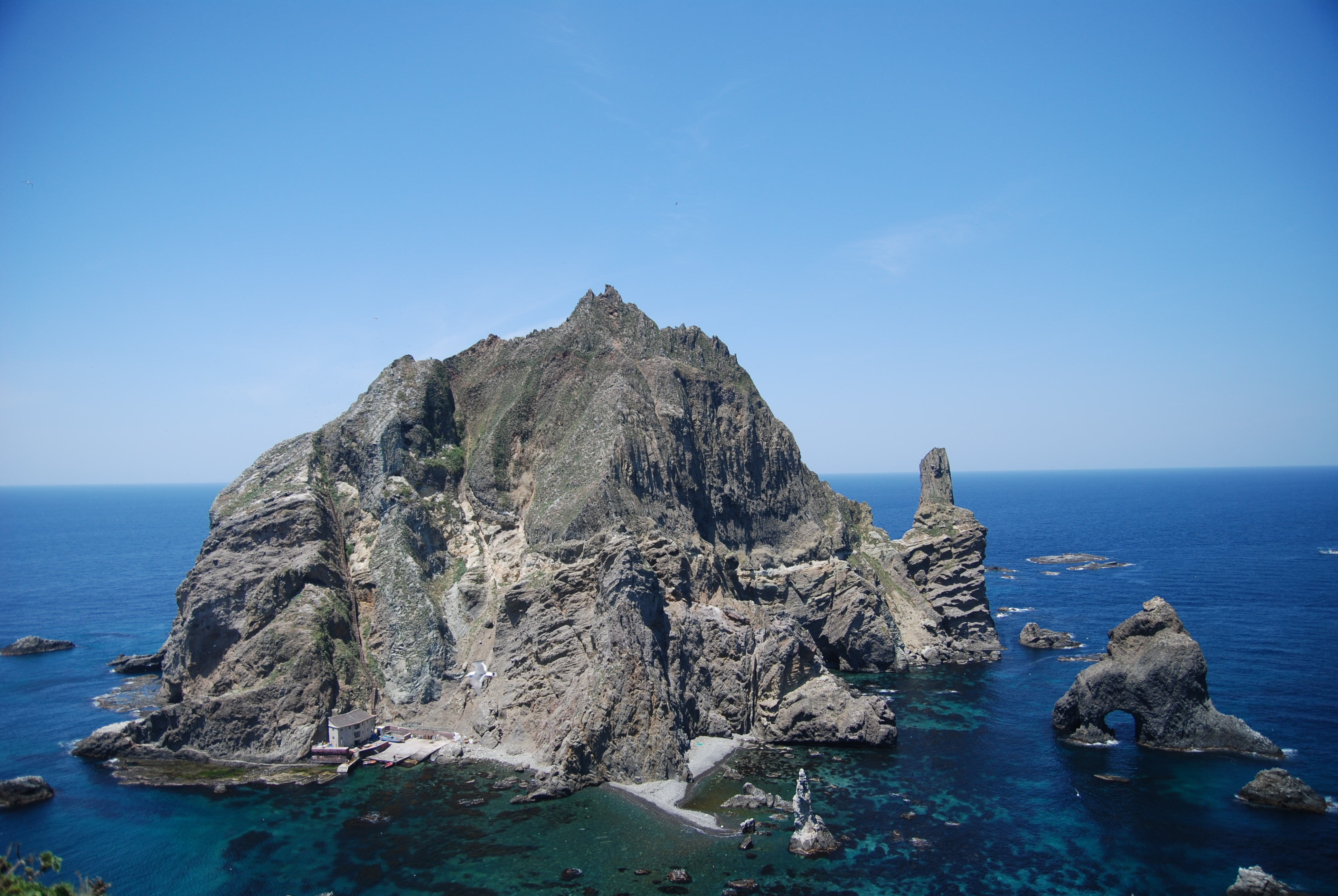 Dokdo's West Islet as seen from the peak of the East Islet. Below is the house of Dokdo's only residents Kim Seong Do and wife Kim Shin Yeol.